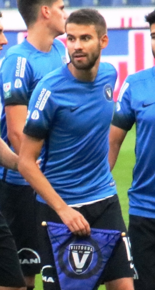 Euroleague play off 2nd leg